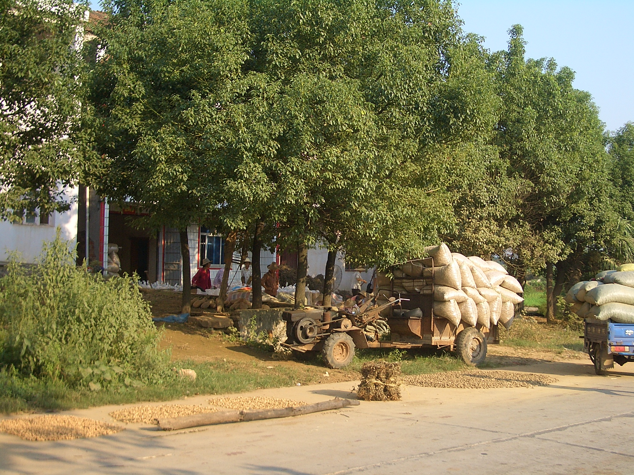 Farmers handle harvested and bagged peanuts. (Southern Jiangxia District, City of Wuhan)